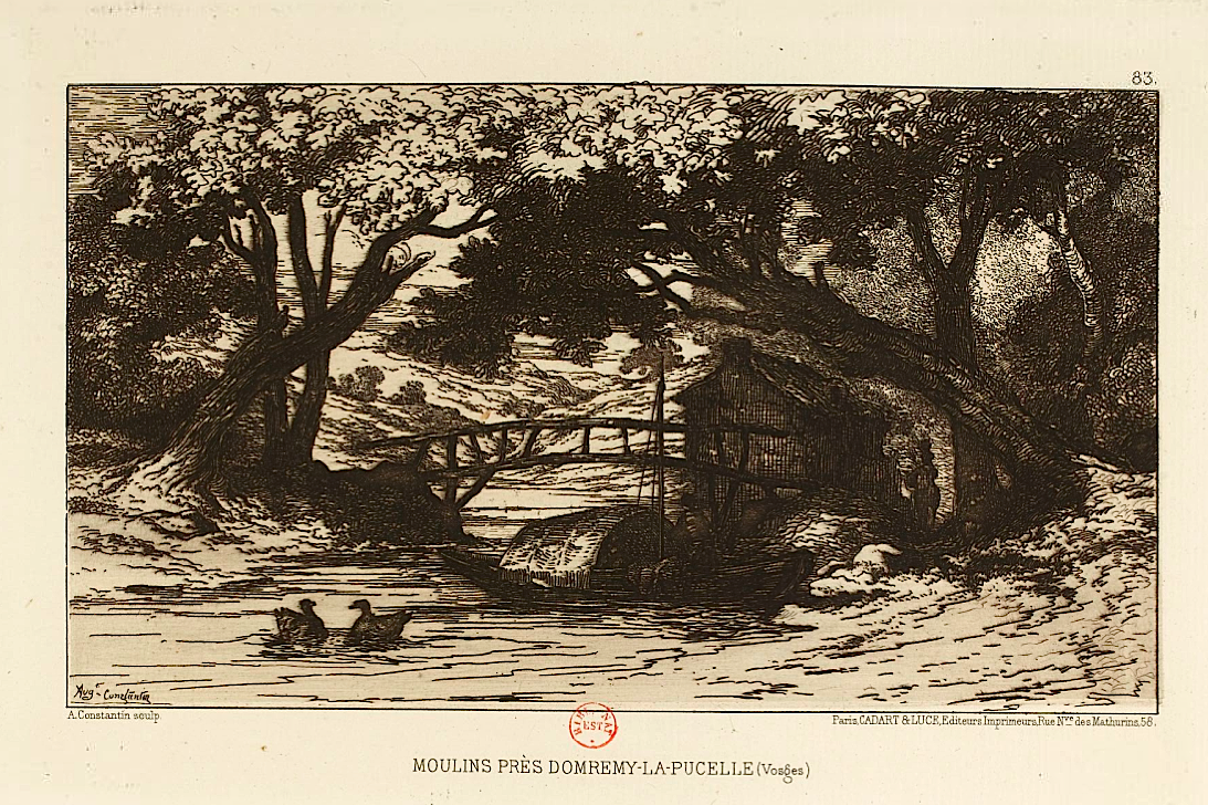 Moulins près de Domremy-la-Pucelle, Vosges, etching by Auguste-Aristide-Fernand Constantin, published in L'Illustration nouvelle, issue 2, year 2, Paris, Alfred Cadart.